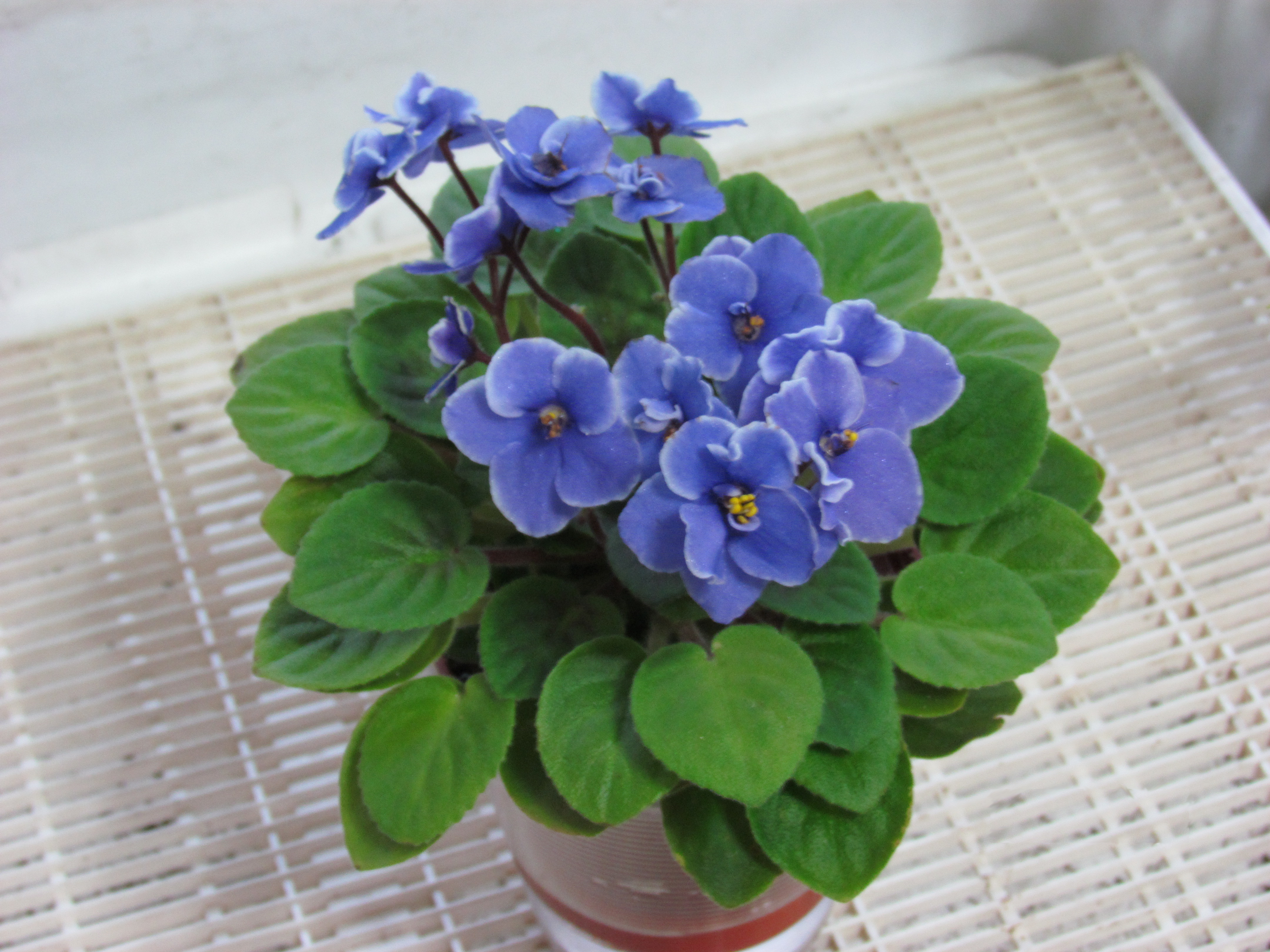 African Violet